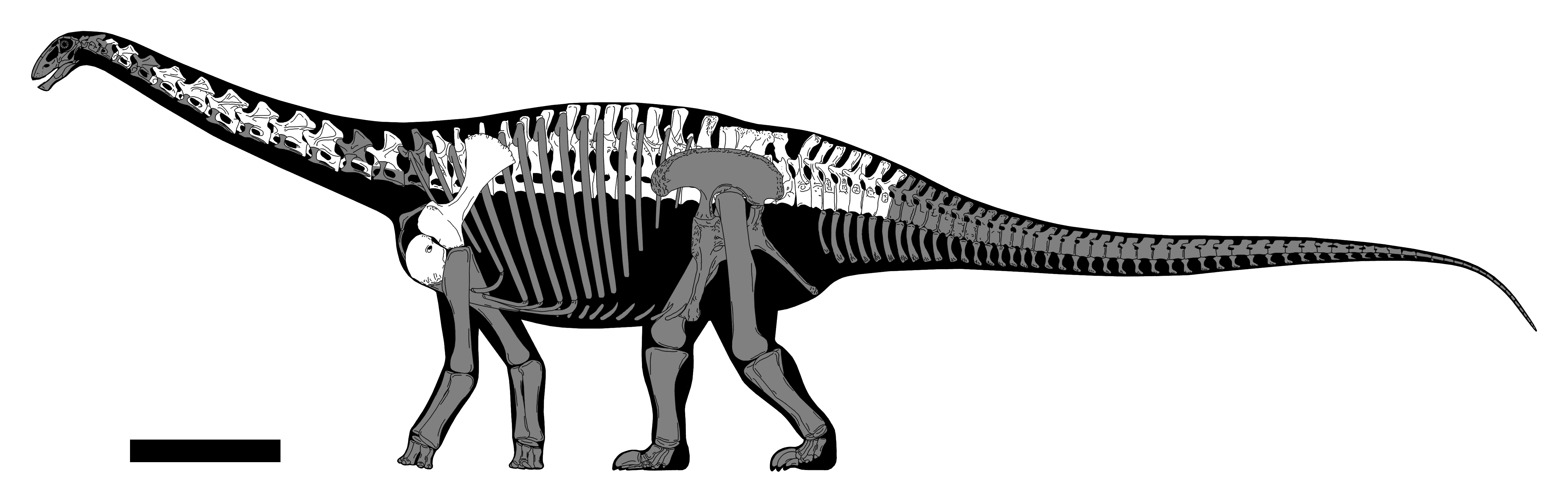 Skeletal restoration of Haplocanthosaurus utterbacki CM 879, based upon the figures in Hatcher 1903, with unknown material based on (in order of priority), H. priscus CM 572, H. delfsi CMNH 10380, H. sp undescribed (measurements used for limb proportions), Dicraeosaurus, Nigersaurus and Galeamopus. Ossified pectoral bones follow interpretations and placements of Tschopp et al 2013.